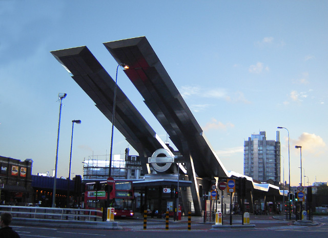 Vauxhall Cross, Vauxhall, Lambeth, London. 29 October 2005. Photographer: Fin Fahey